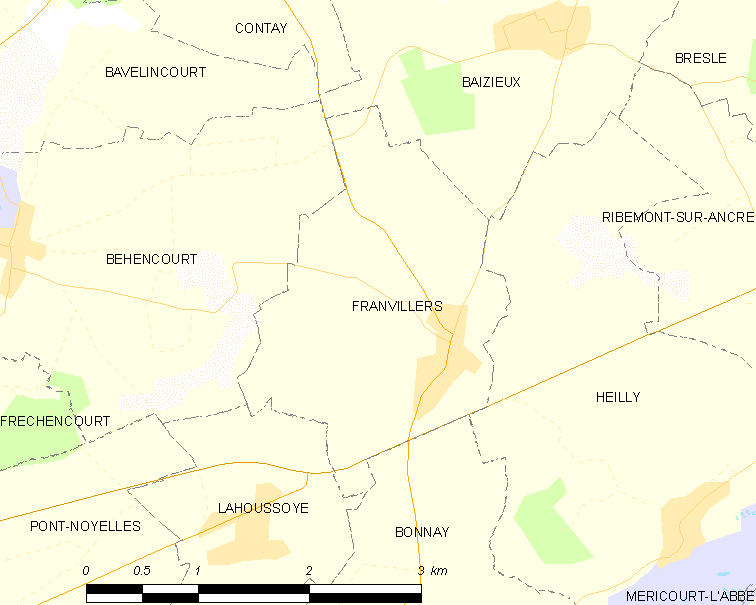 Map of French municipality Franvillers